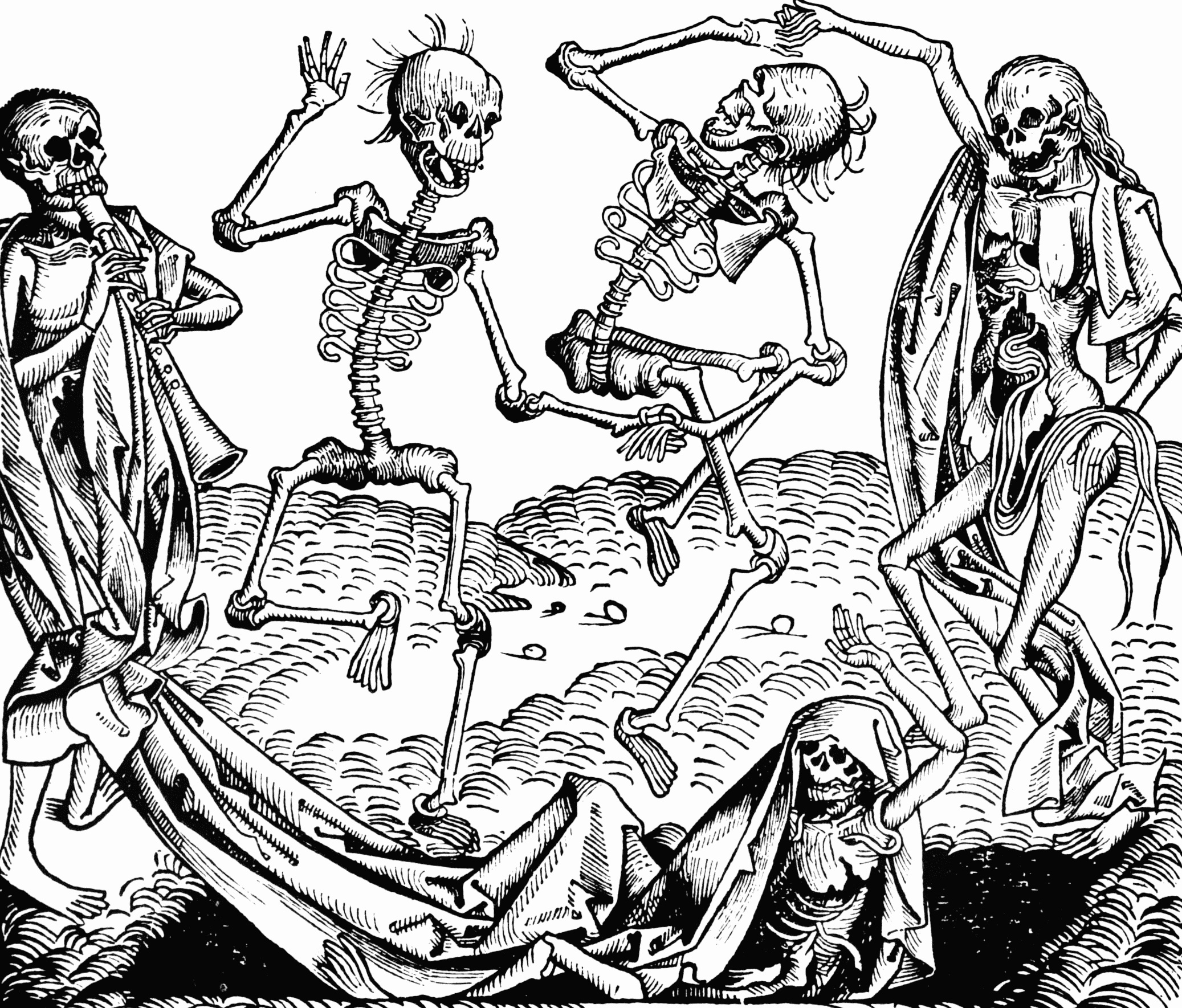 Illustrations from the Nuremberg Chronicle, by Hartmann Schedel (1440-1514)